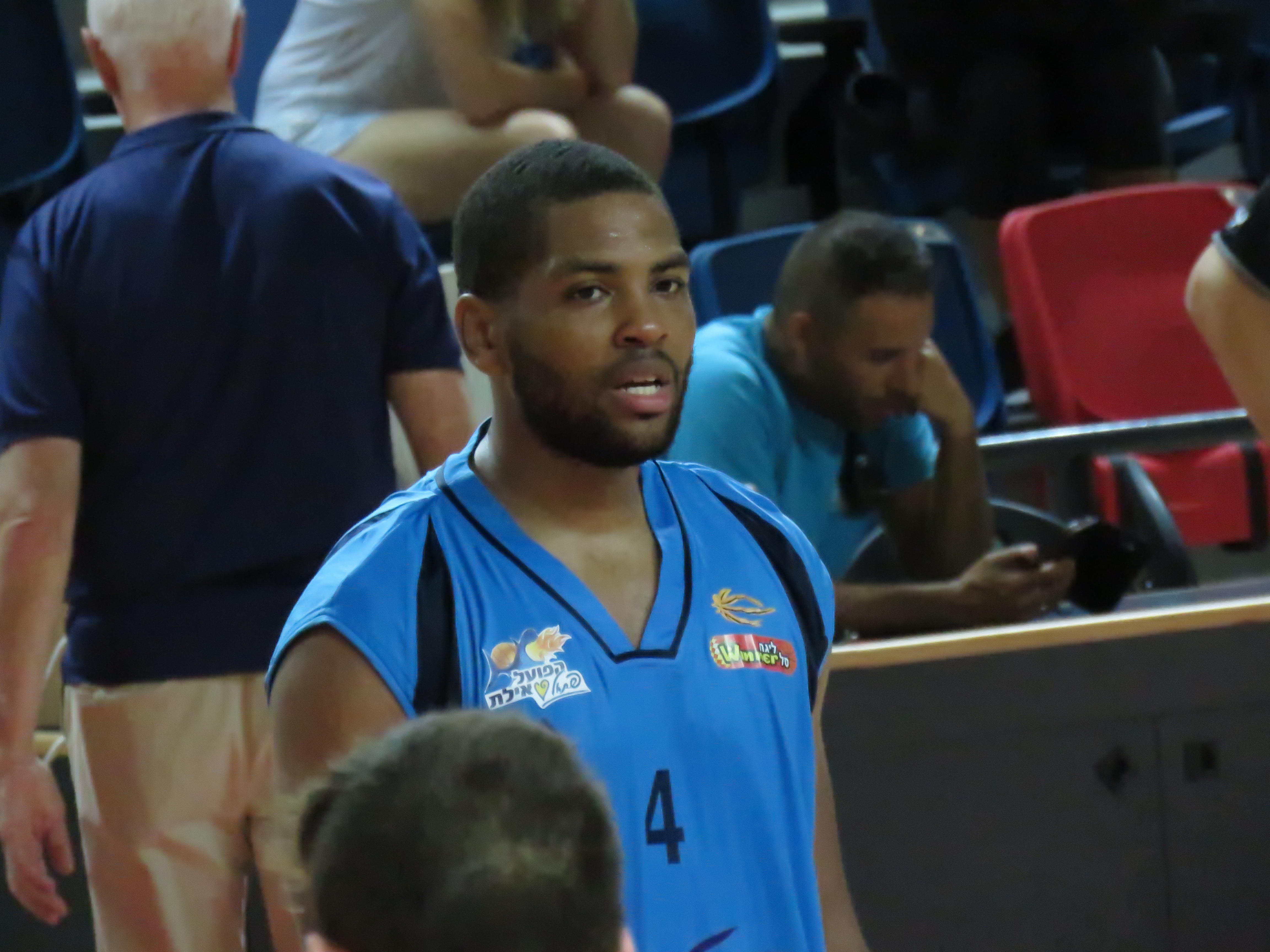 Hapoel Tel Aviv vs. Hapoel Eilat - Pre-season friendly, Septeber 11, 2015